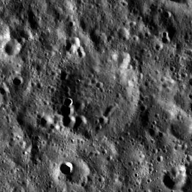 LROC . Langevin is located inmediately south of big crater d'Alembert .